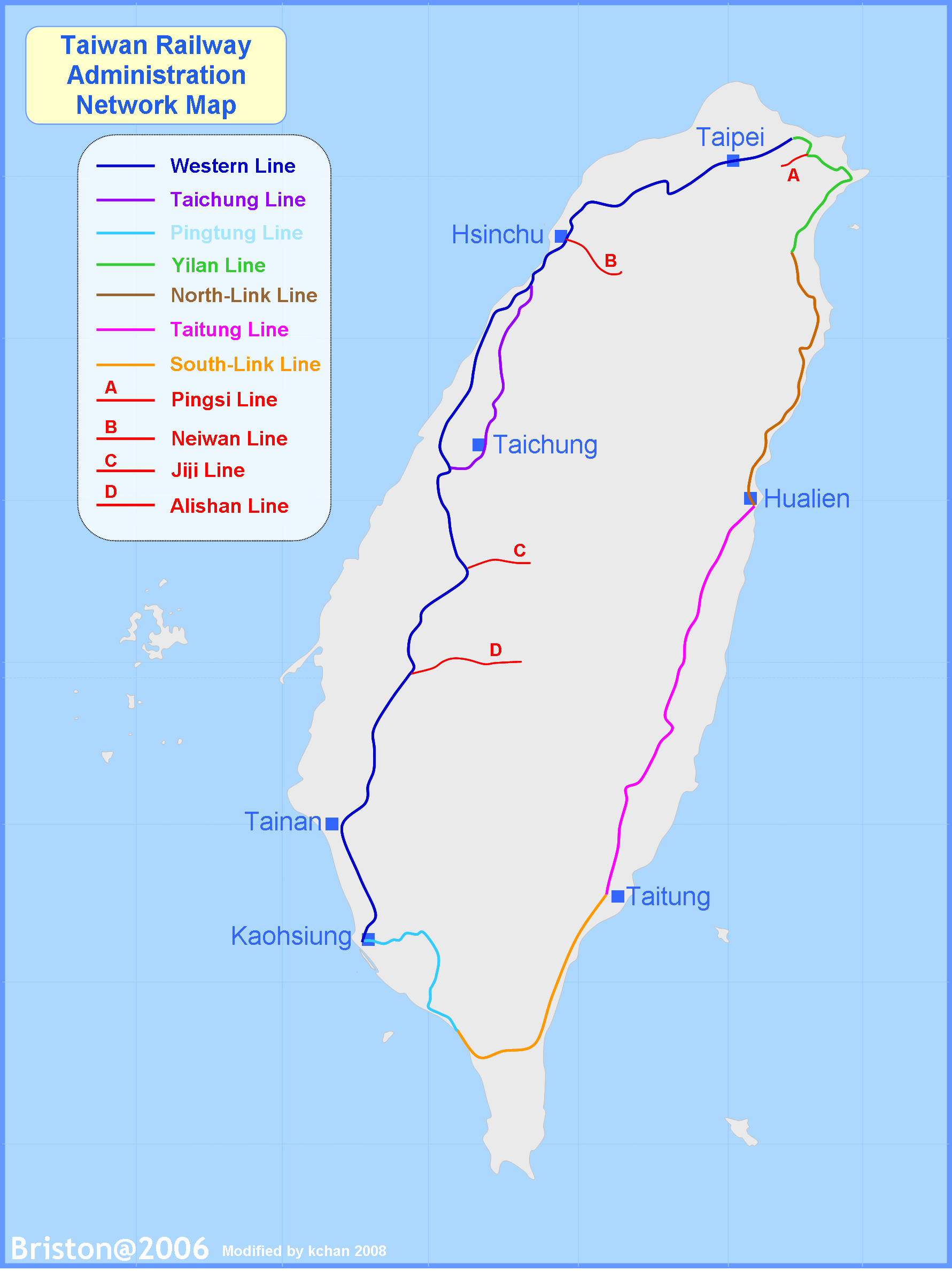 Taiwan Railway Administration Network Map translated.